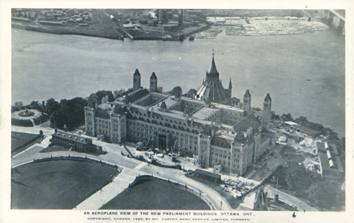 Aerial view of Ottawa, Canada. New Centre Block under construction.